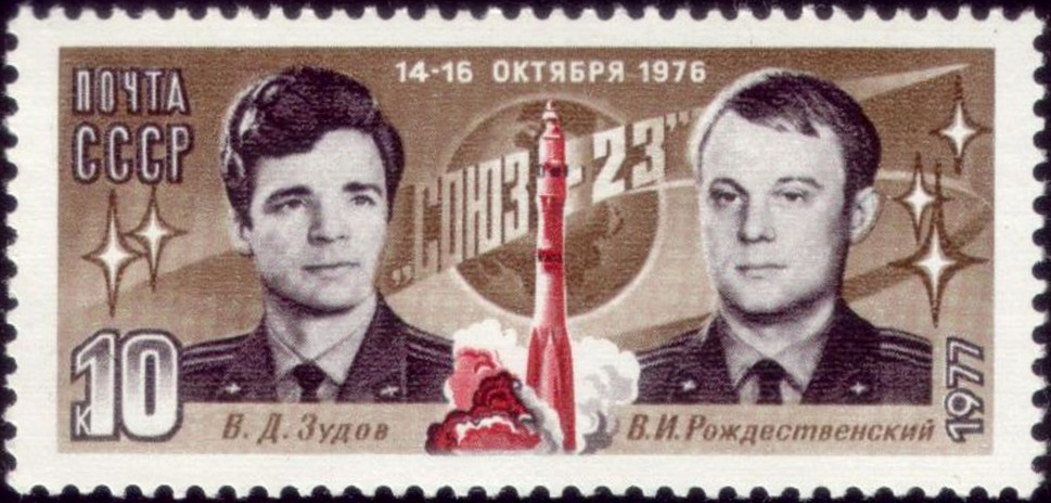 Stamp of the Soviet Union, 1977. Soviet spacecraft Soyuz 23 flight.